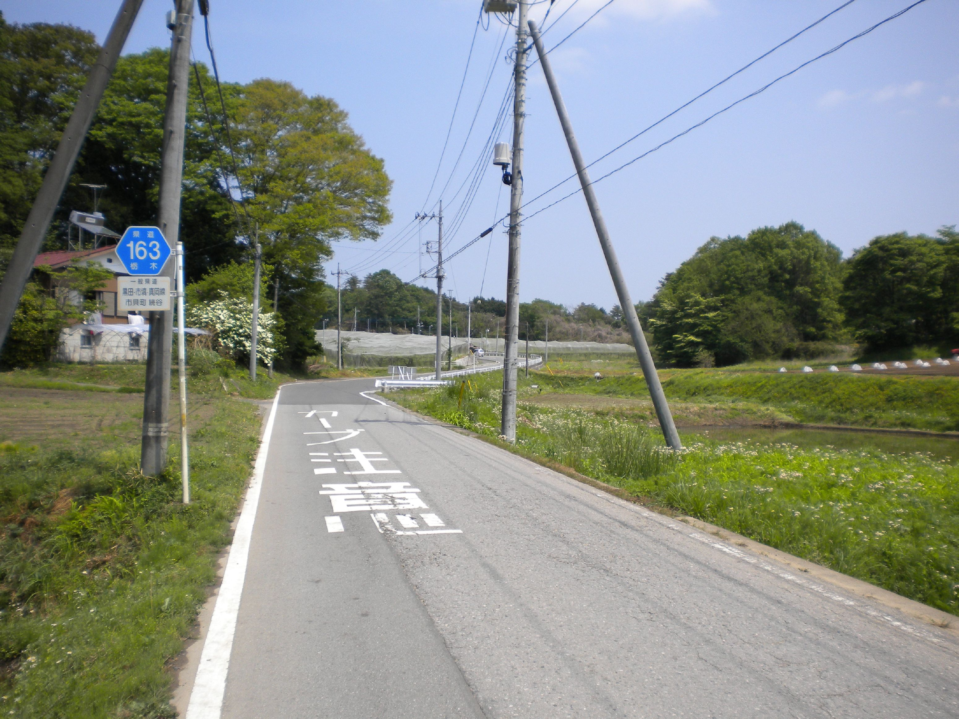 The Tochigi Prefectural Road Route 163 in Tsuzukiya, Ichikai Town